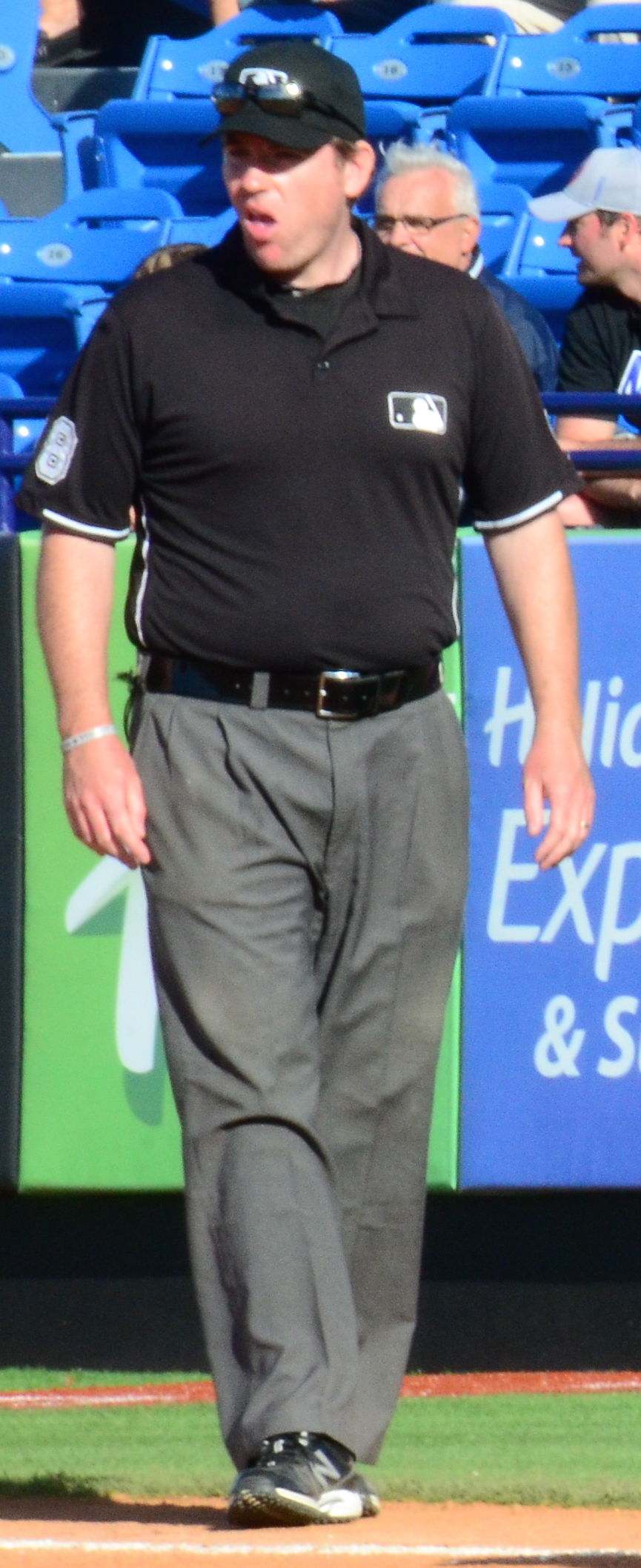 Major League Baseball umpire Chris Conroy working a New York Mets spring training game in 2014.